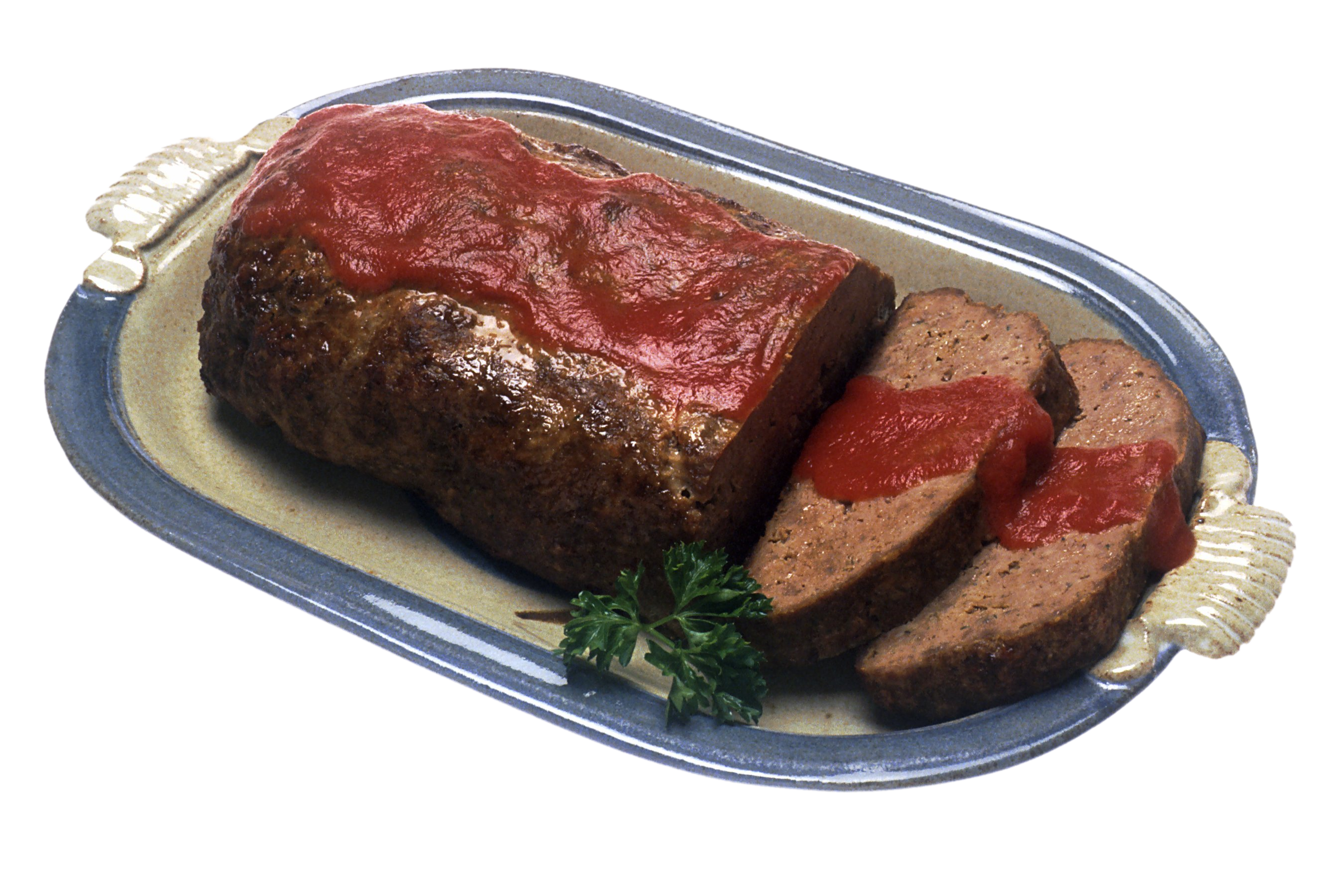 a plate of a whole meatloaf garnished with a sauce on top